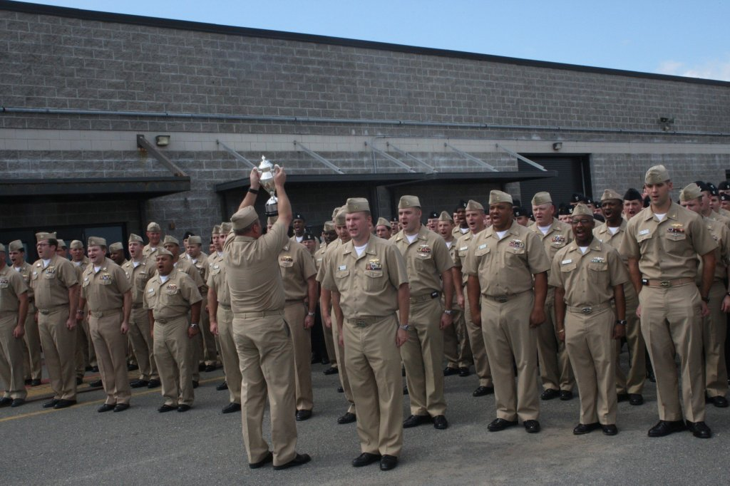 USS Maryland (Gold) Chief of the Boat ETCM(SS) Michael McLauchlan presents the 2008 Omaha Trophy to the USS Maryland Blue and Gold crews during an awards ceremony at Naval Submarine Base King's Bay, Georgia.